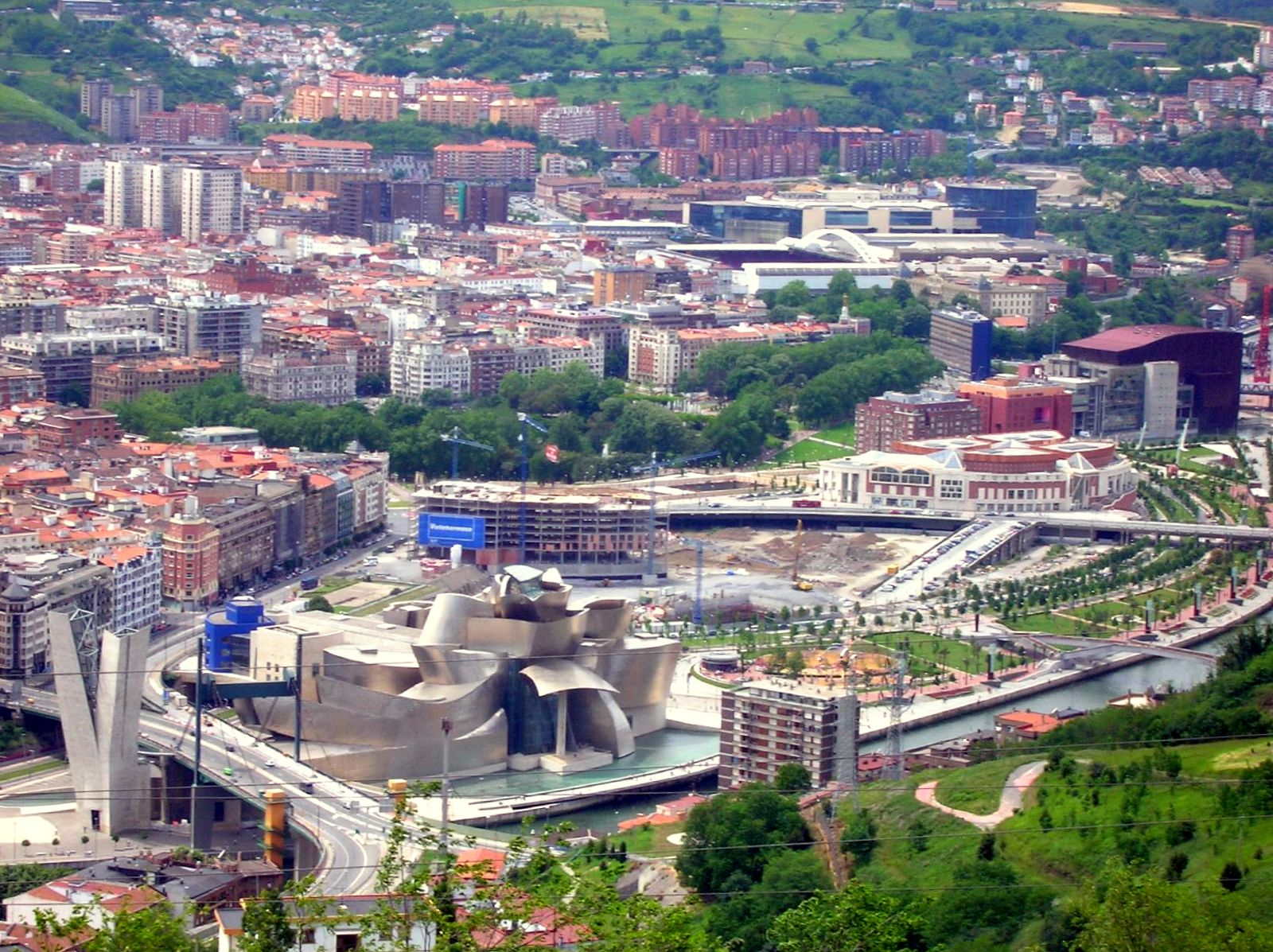 Guggenheim Bilbao aerial view